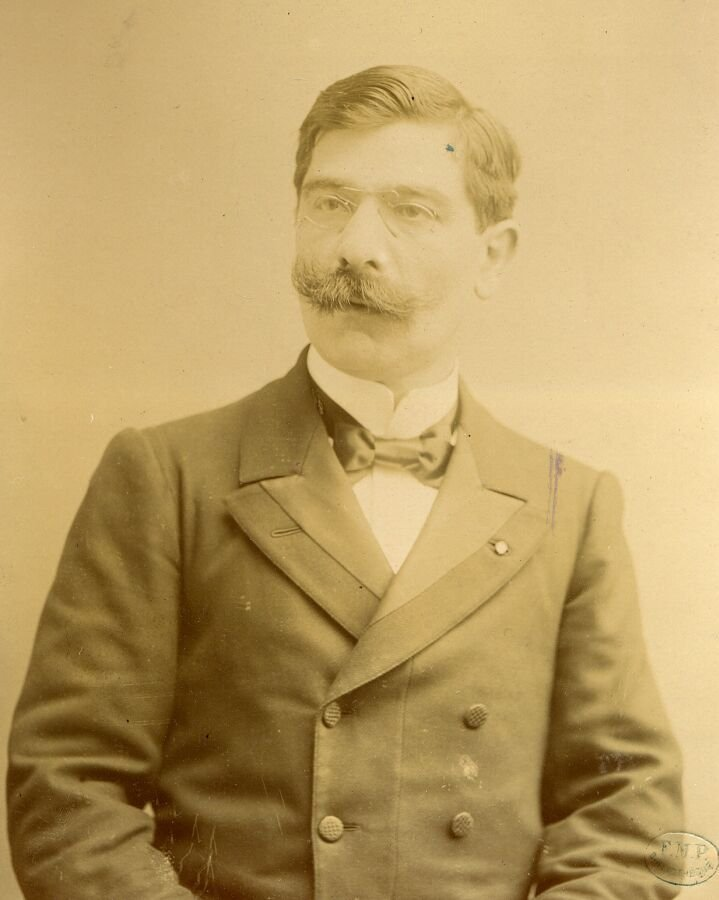 Gérasime Phocas